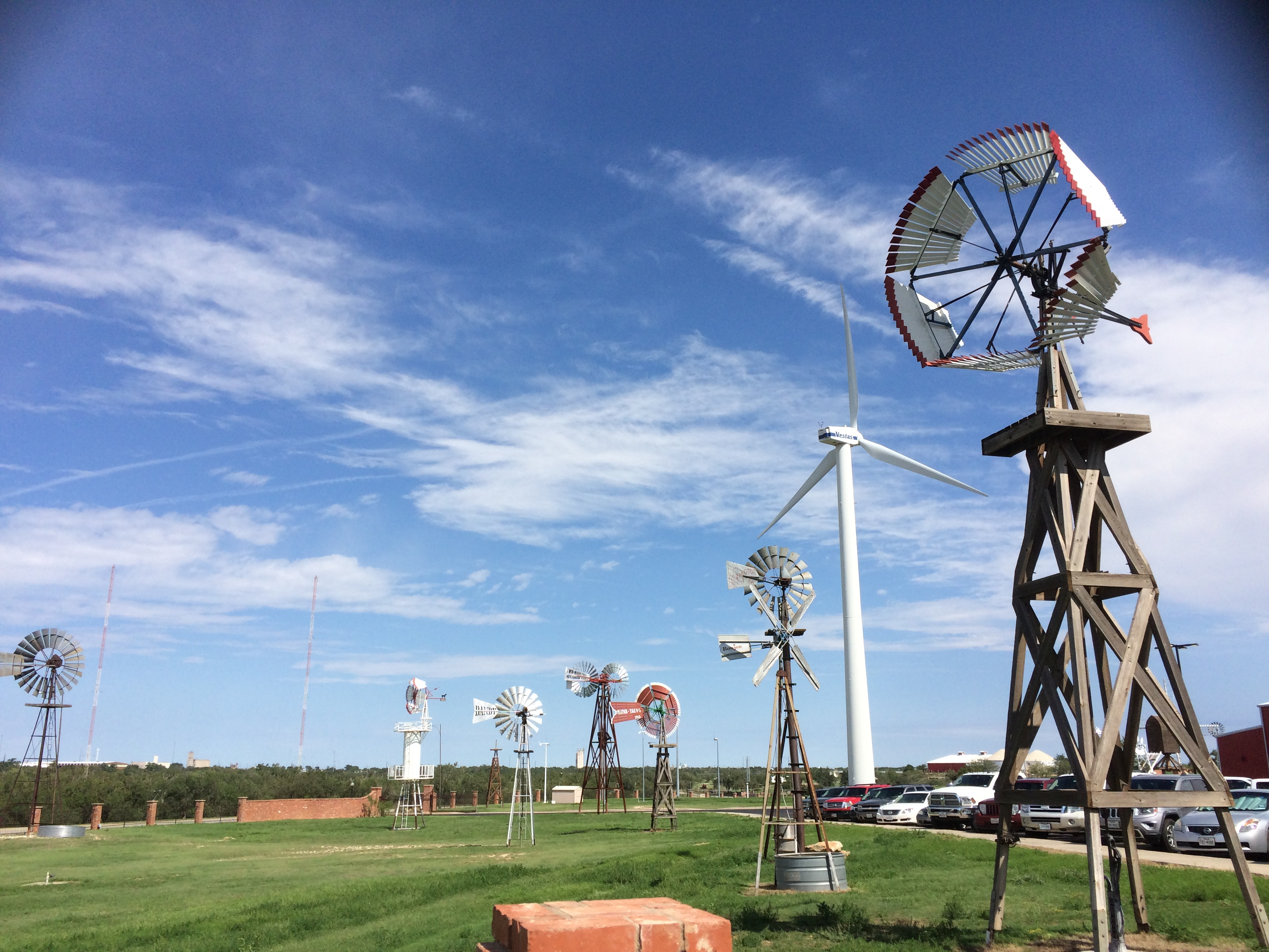 Wind wheels and a modern wind turbine at the American Wind Power Center, Lubbock, Texas, September 10, 2016